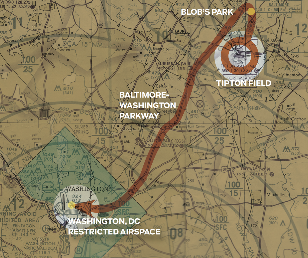 Chart of Robert K. Preston's flight in a stolen helicopter from Fort Meade to Washington